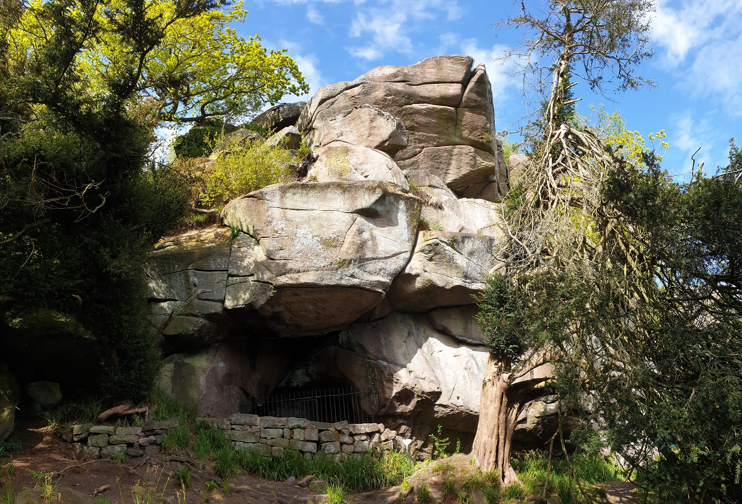 Hermit's Cave at Cratcliff Rocks near Birchover